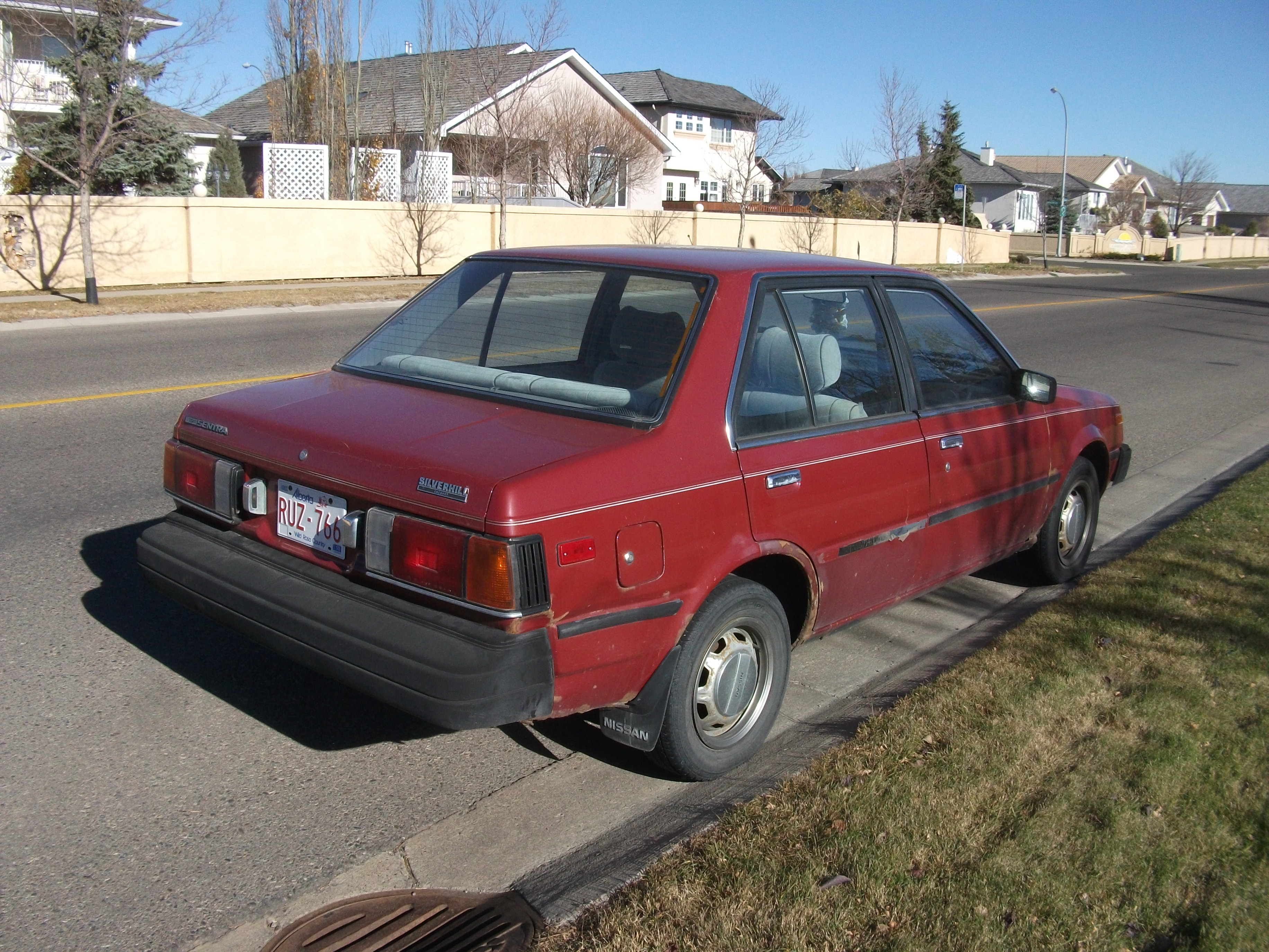 Early Nissan Sentra with large flower thing hanging from rear view mirror. This one is either a 1985 or 1986 model.